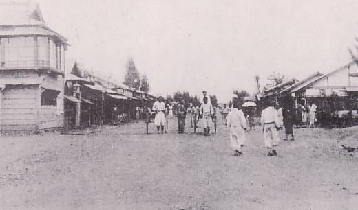 View of Sariin(Sariwon)